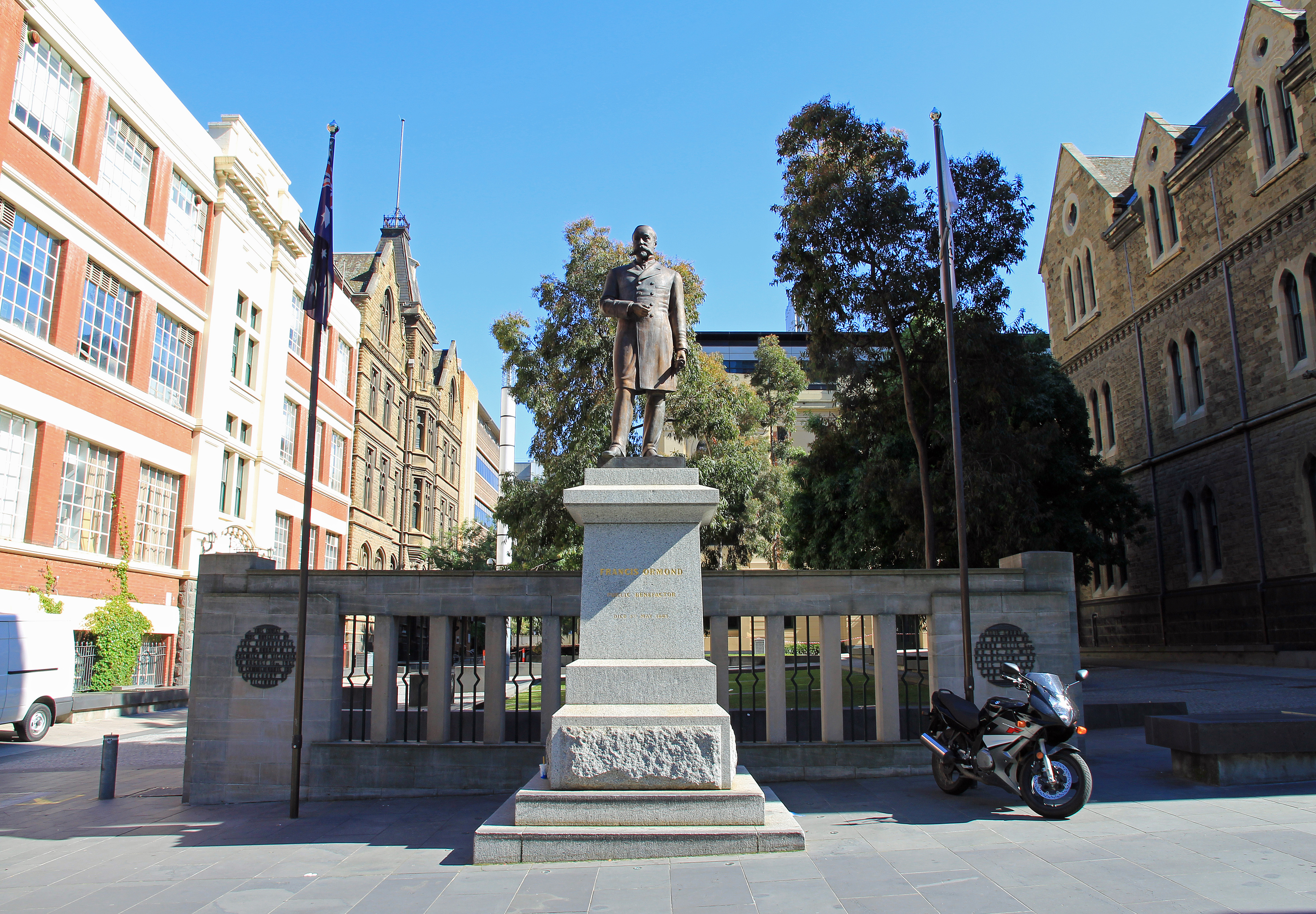 Melbourne RMIT University City Campus (Building 4)